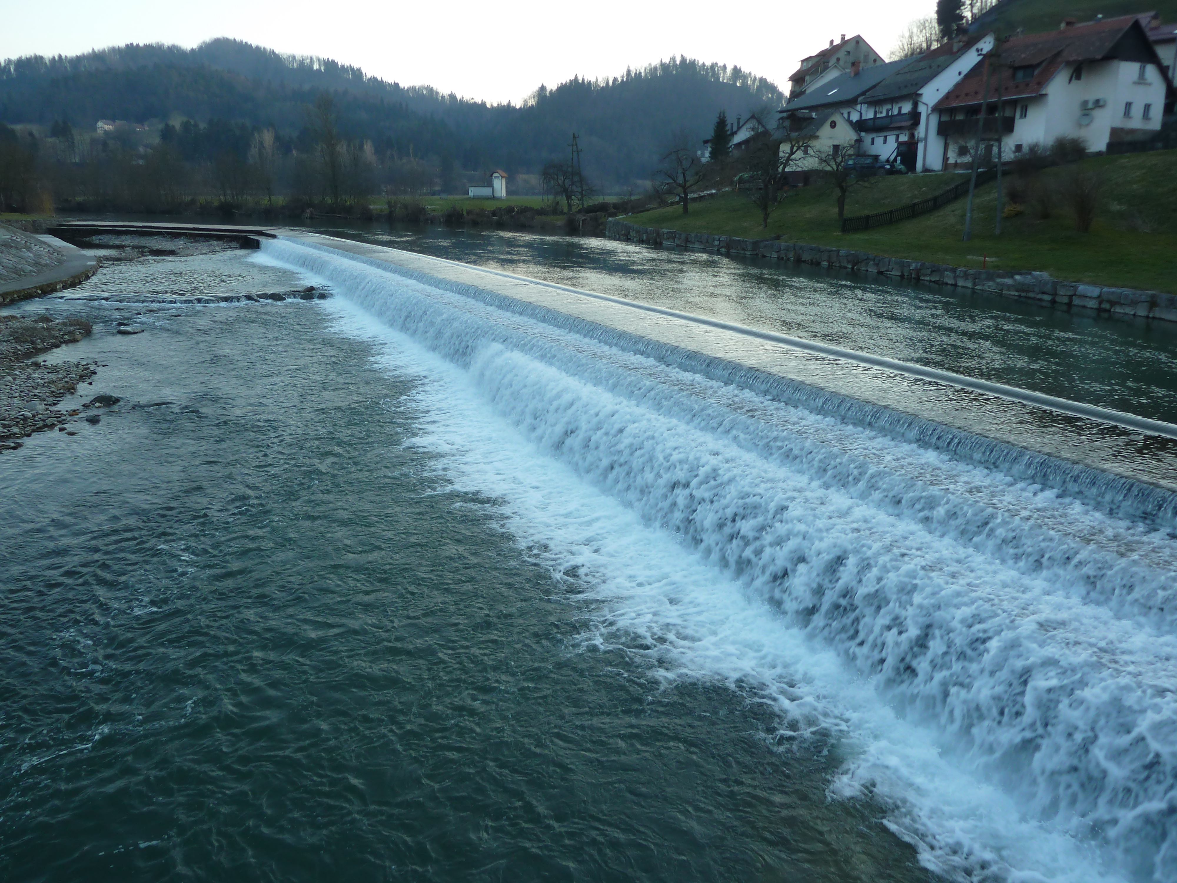 The dam on Poljanska Sora river at Pustal